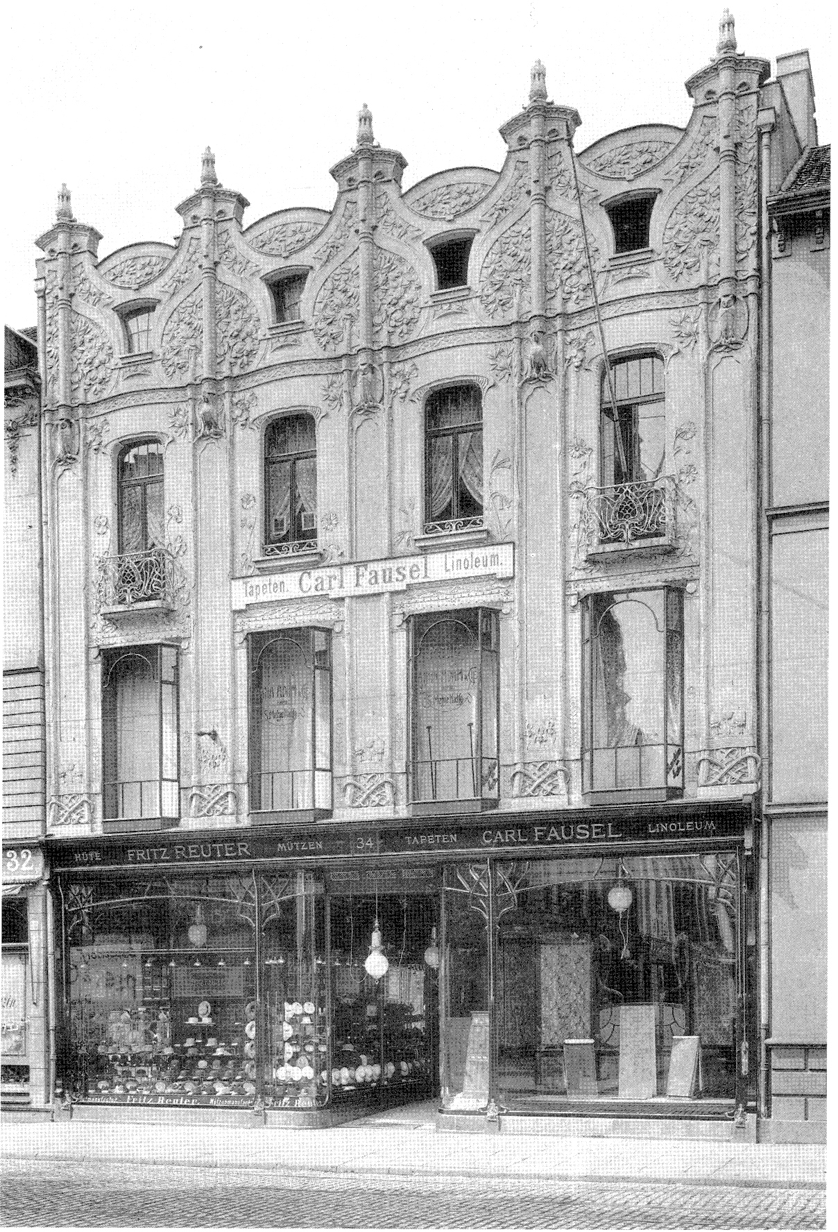 Haus Schadowstraße 34 , Düsseldorf , 1899 von Architekt Gottfried Wehling aus Düsseldorf, Die Architektur des XX. Jahrhunderts - Zeitschrift für moderne Baukunst. Jahrgang 1901; Nr. 66.jpg